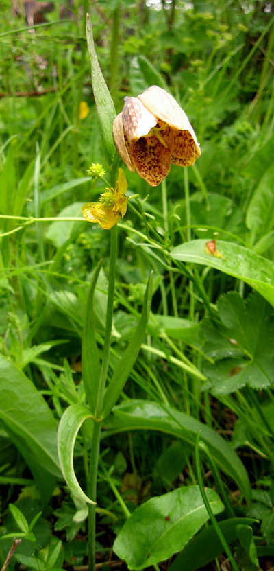 Fritillria dagana. Plant with flower. Krasnoyarsk region, West Sayan, "Ergaki" park, subalpine meadow, near Nishnya Buyba river.